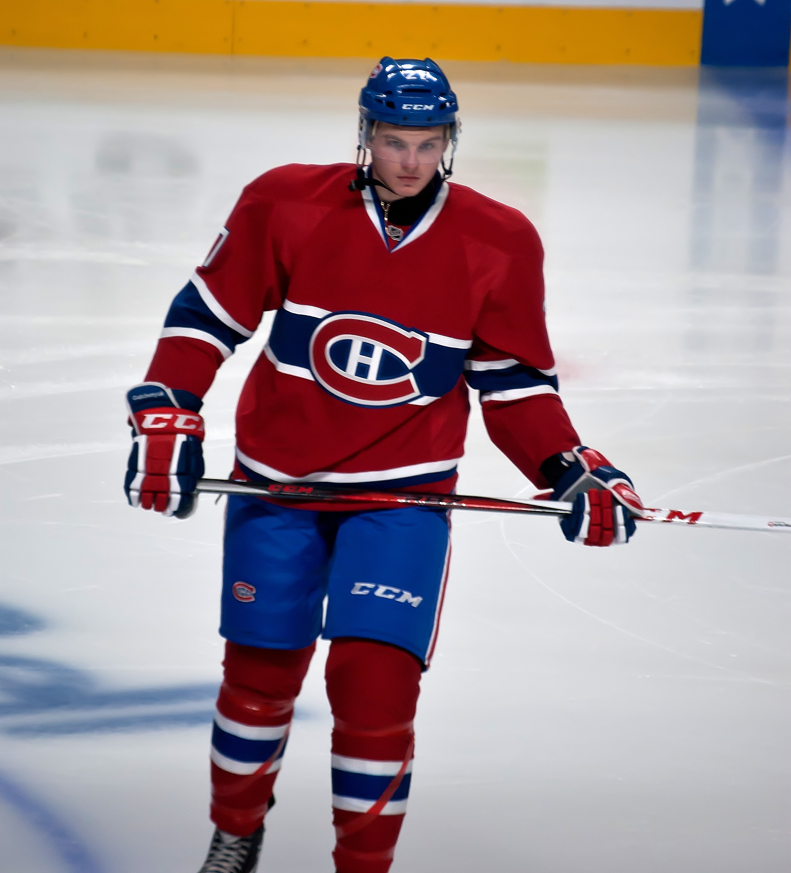 Montreal Canadiens rookie forward Alex Galchenyuk during a practice with his team.